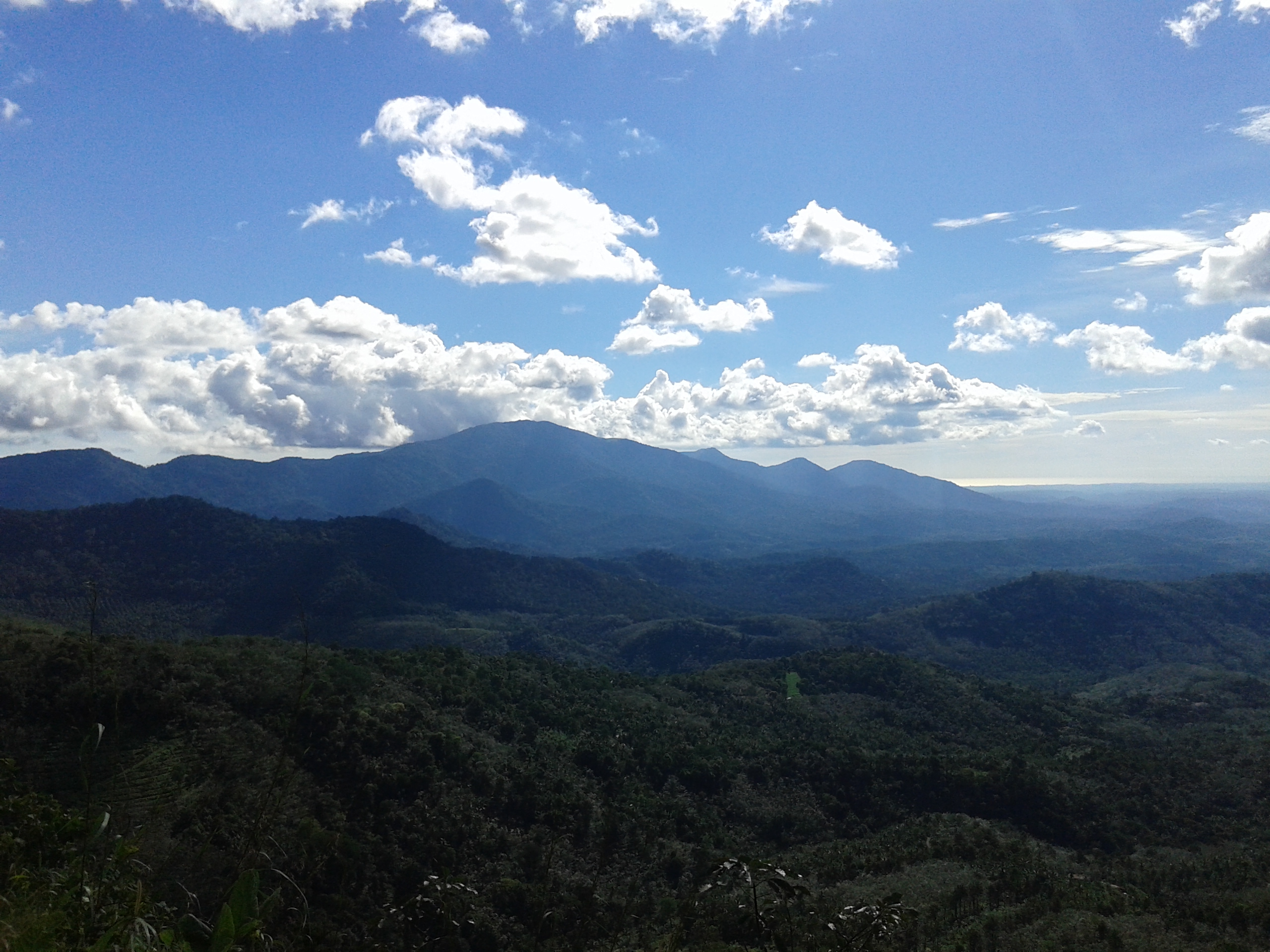 Elapeedika